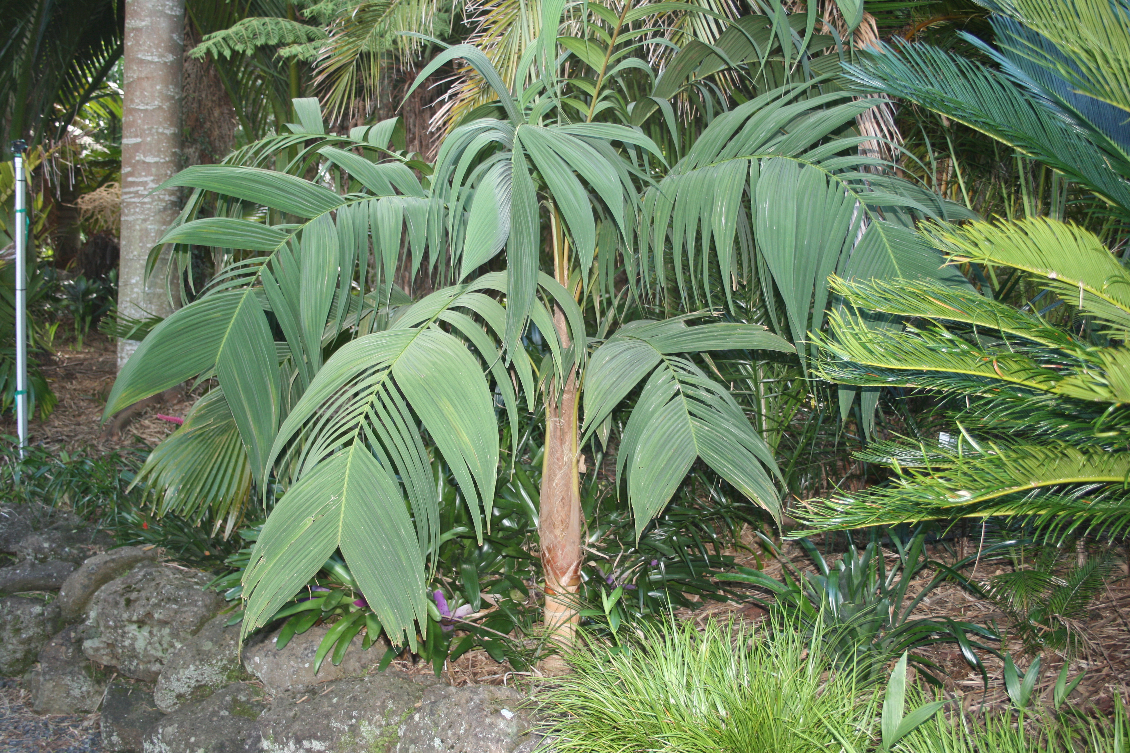 Geonoma undata or Red Crownshaft Palm. Native to Central and western South America where it grows in cloud forest. This is a young specimen growing in cultivation at Kerikeri, New Zealand